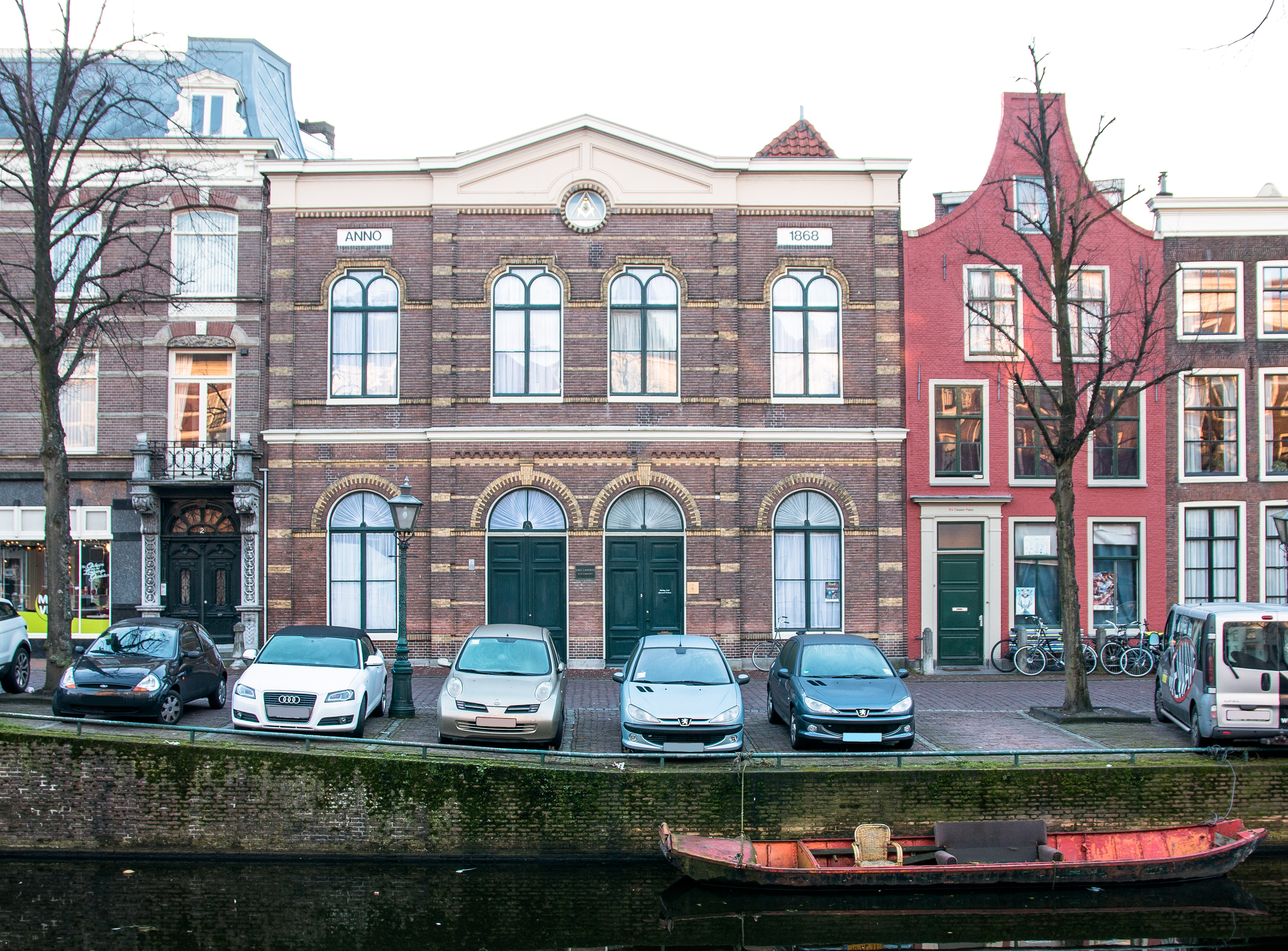 Loge "La Vertu". Freemasons, Leiden